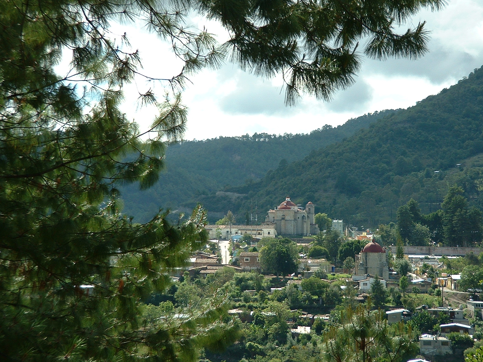 View over the village of Ixtlán de Juárez, Oaxaca, Mexico